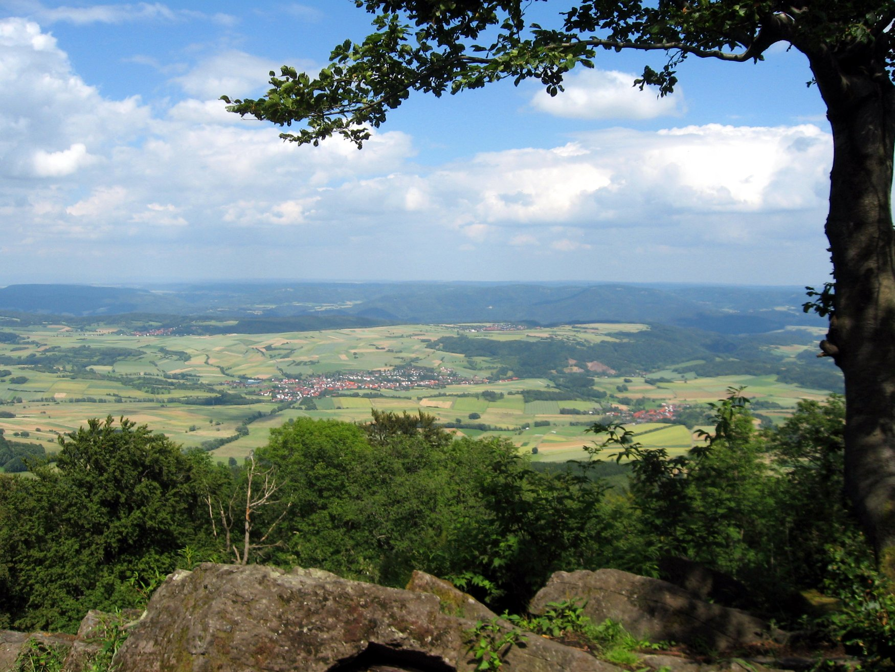 Germany / Hesse : Meissner Mountain